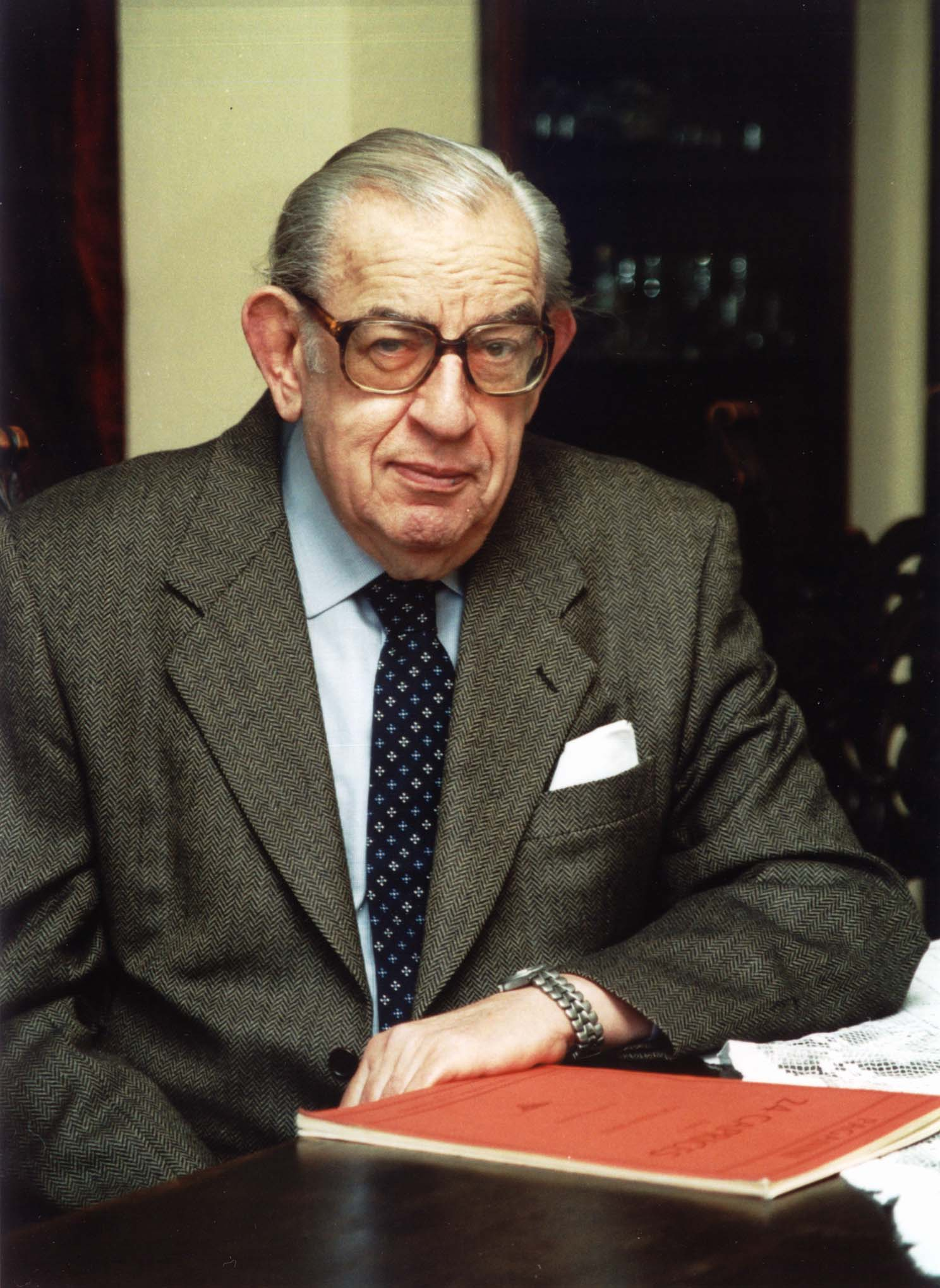 Professor Stefan Gheorghiu